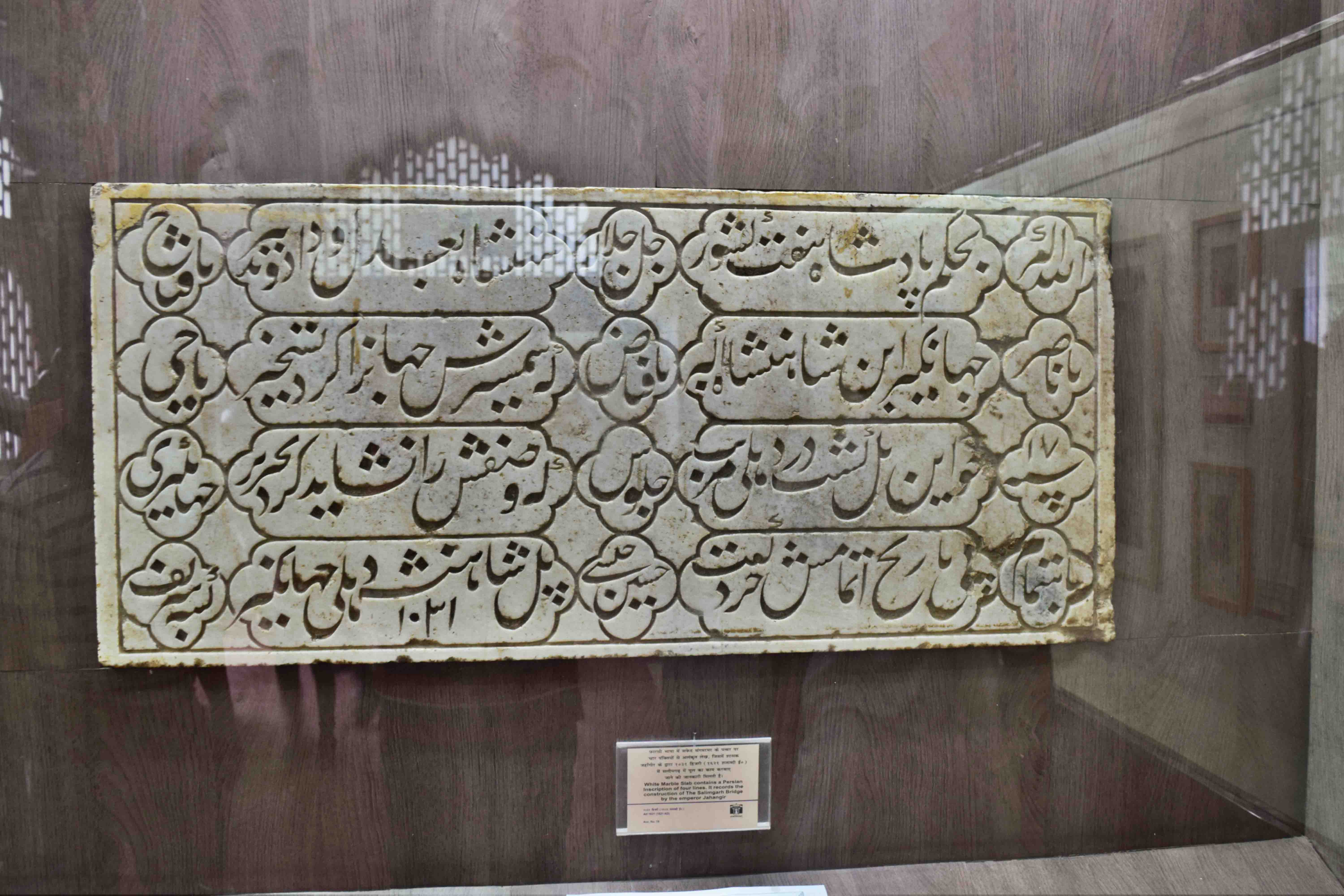 Delhi fort or Lal Qila (Red Fort), Naubat Khana, Diwan-i-am, Mumtaz Mahal' Rang Mahal, Baithak,Maseu Burj, diwan-i-Khas' Moti Masjid, sawan Bhadon ,Shah Burj, Hammam with all surrounding including the gardens, paths, terraces and water courses. Built 1638 - 1648 A.D.